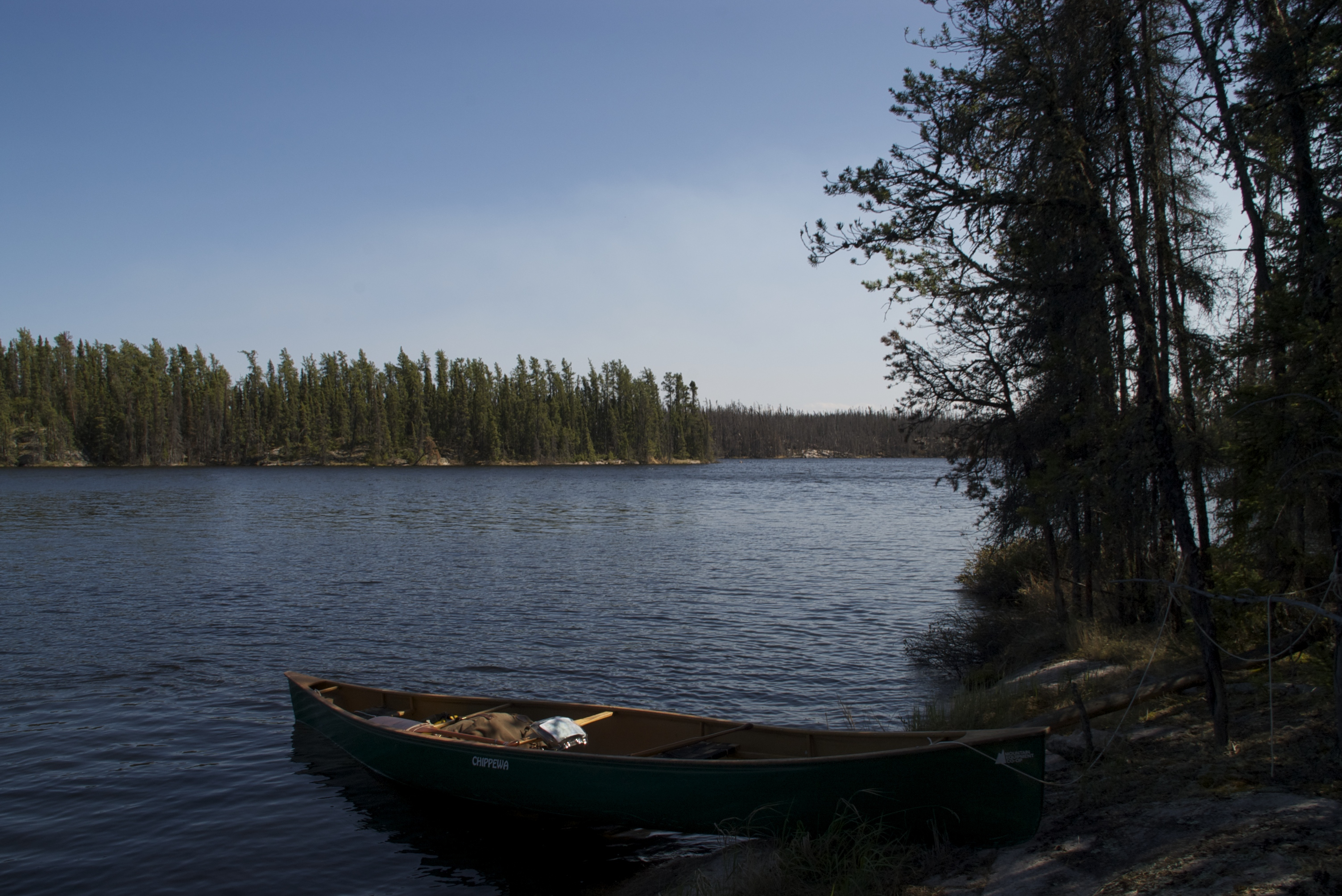 Part of the Mistik Creek chain